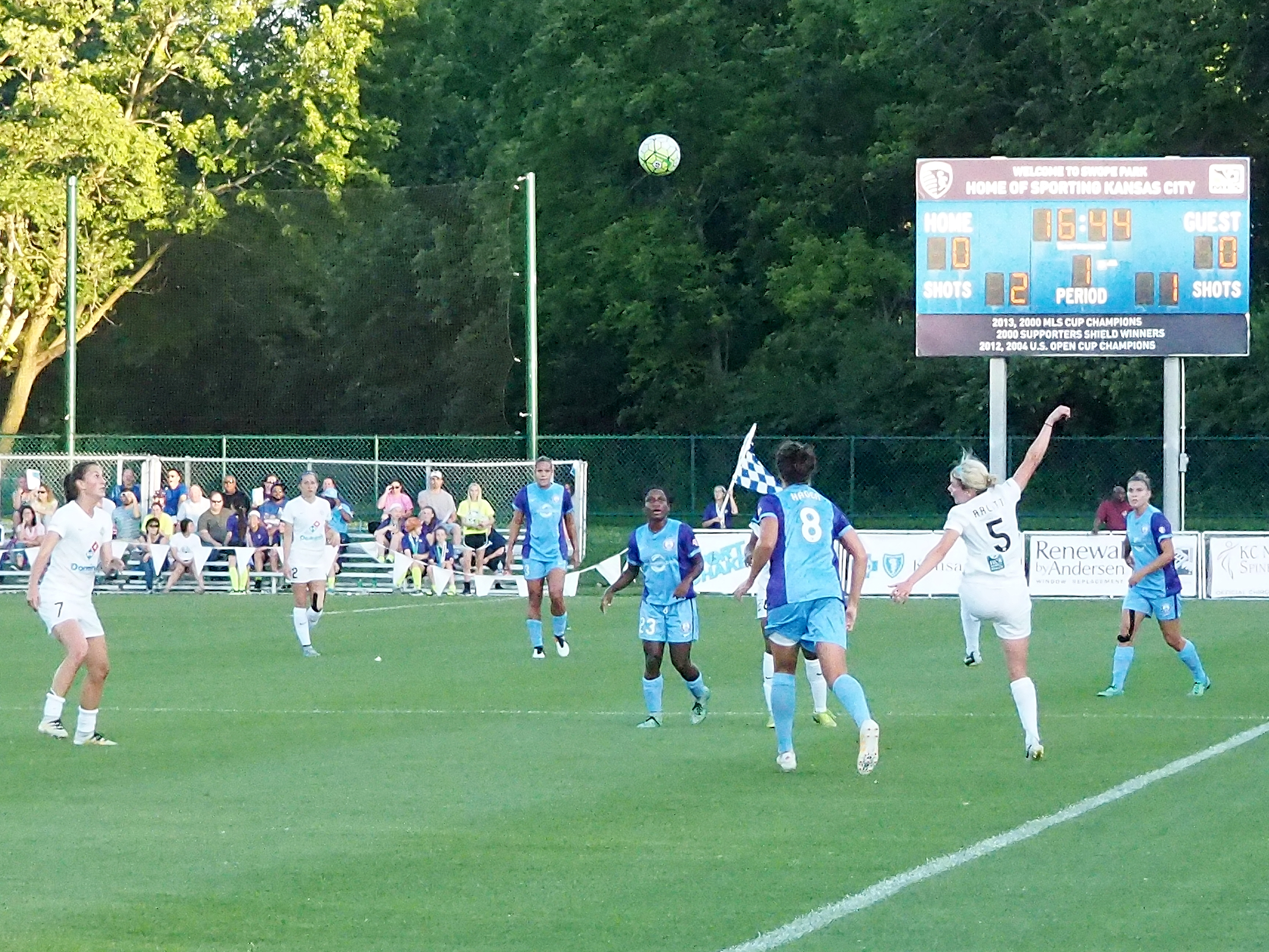 FC Kansas City vs Orlando Pride